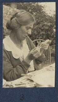 snapshot of the poet Fredegond Shove